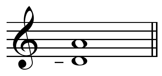 Just perfect fifth below A = D-. 3:2 = 701.96 cents.